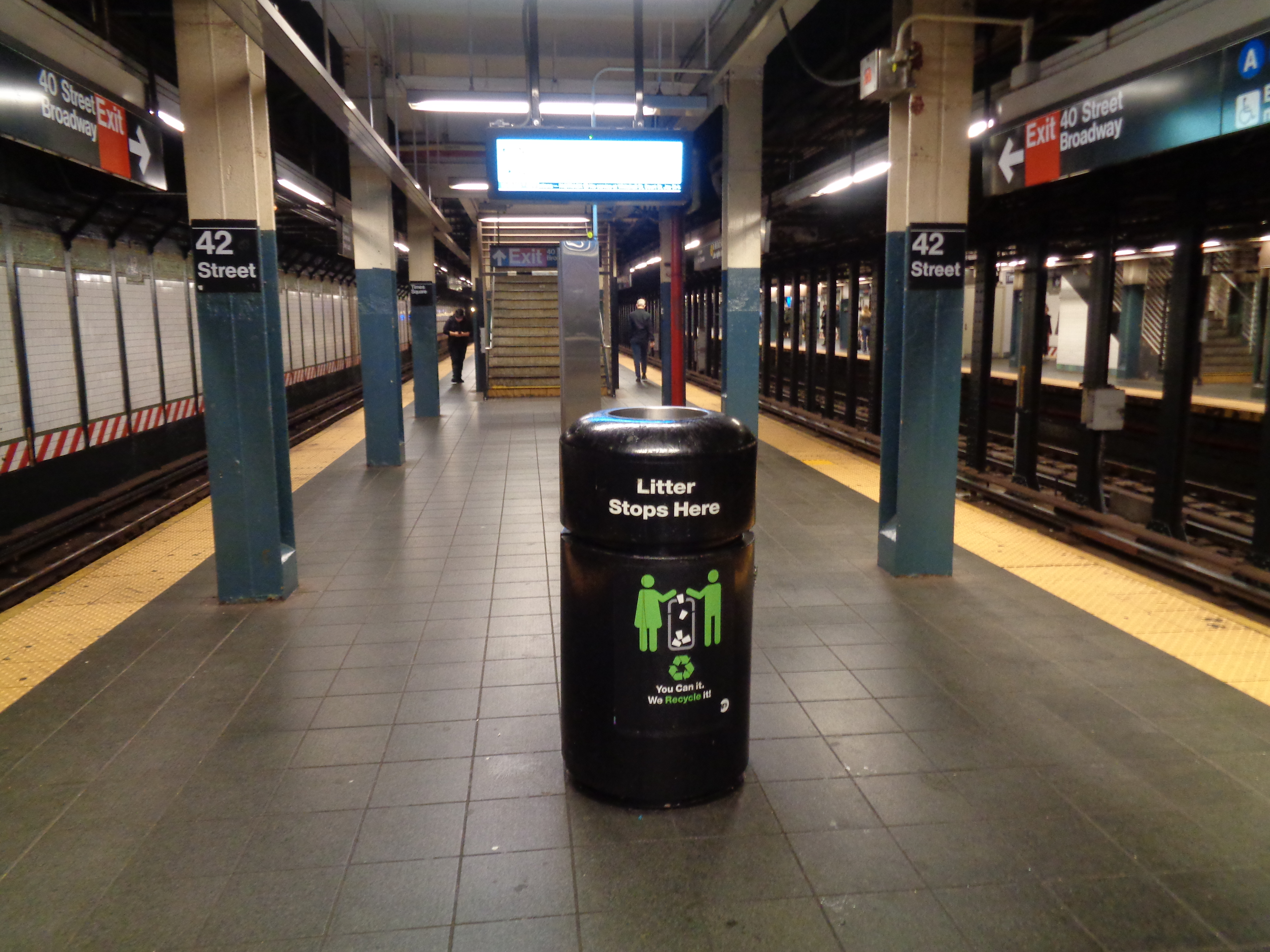 Looking south on the Uptown BMT Broadway platform at the Times Square–42nd Street subway station in Times Square, Manhattan.